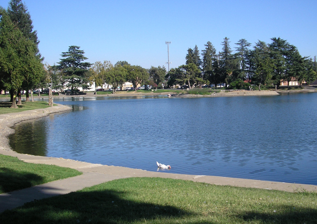 Ellis Lake in Marysville, California, September 2004.